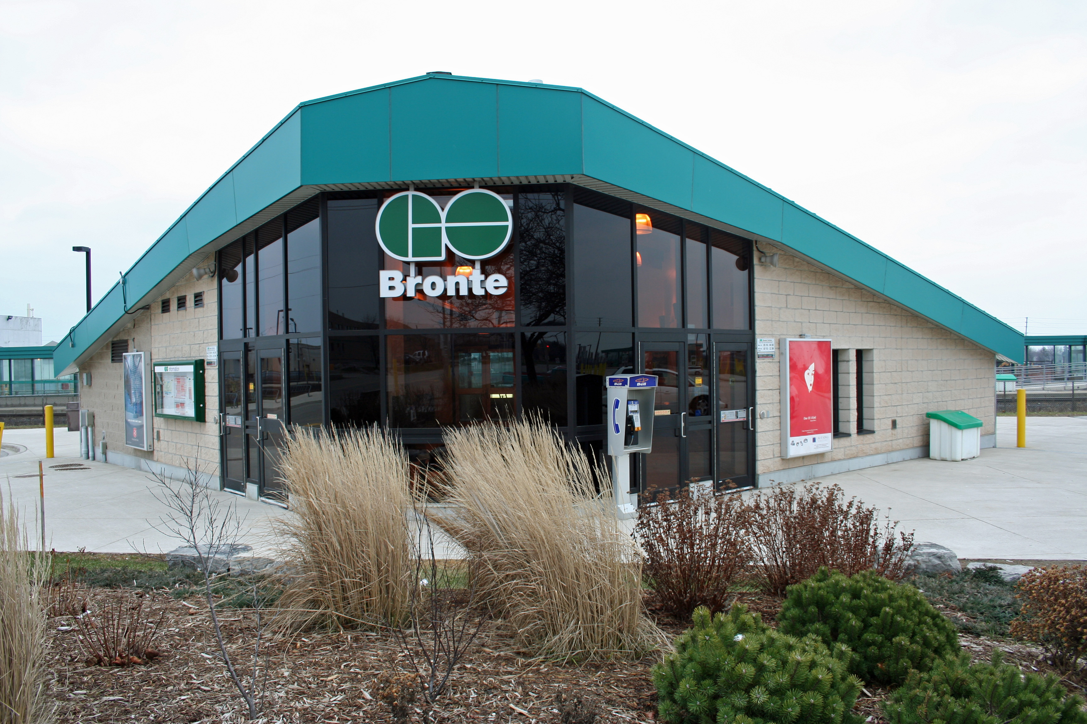 Bronte GO Station, Oakville, Ontario, Canada